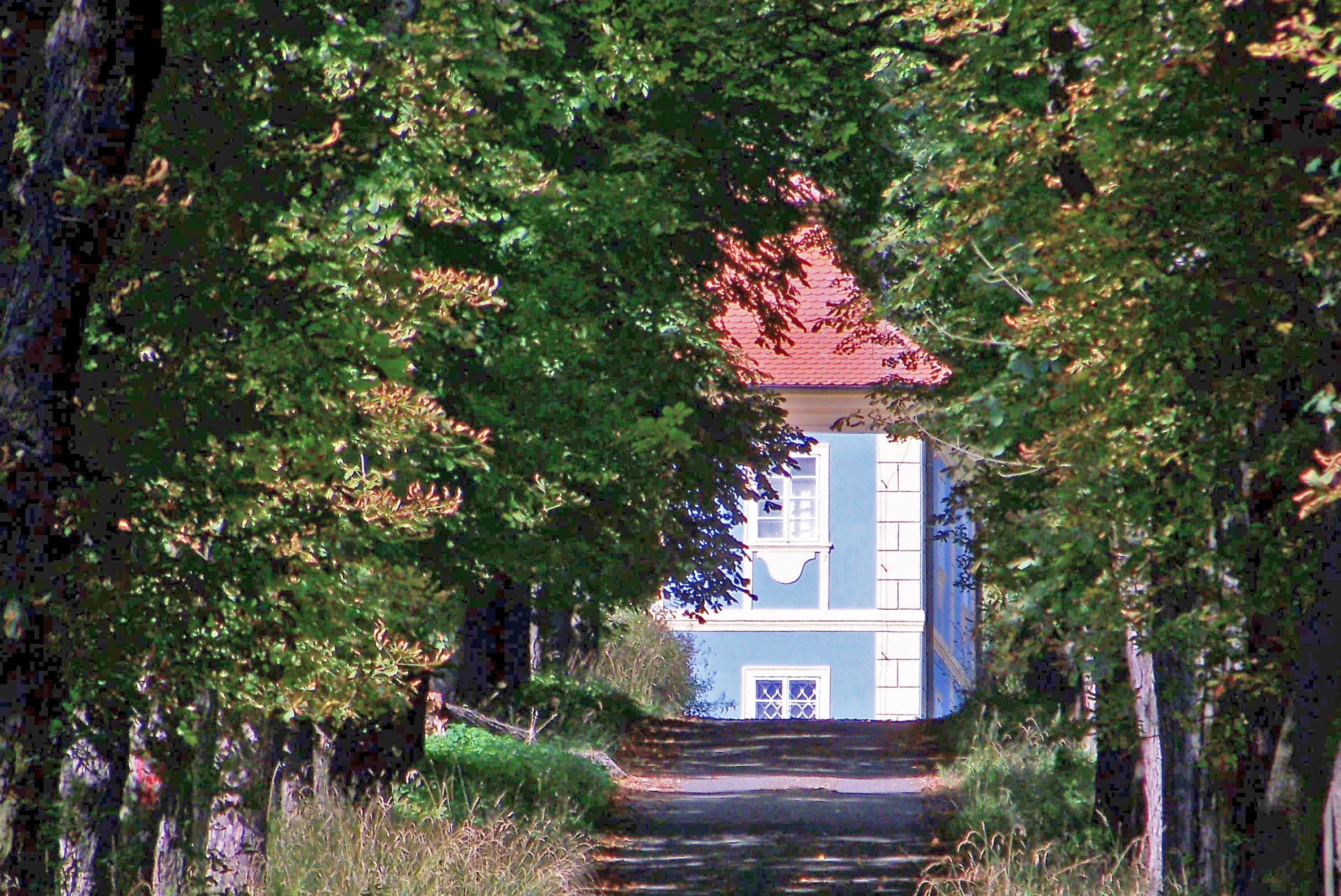 Sýkořice, Rakovník District, Central Bohemian Region, Czech Republic. Dřevíč castle, seen from the gate.